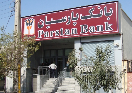 Tehransar branch of Parsian bank